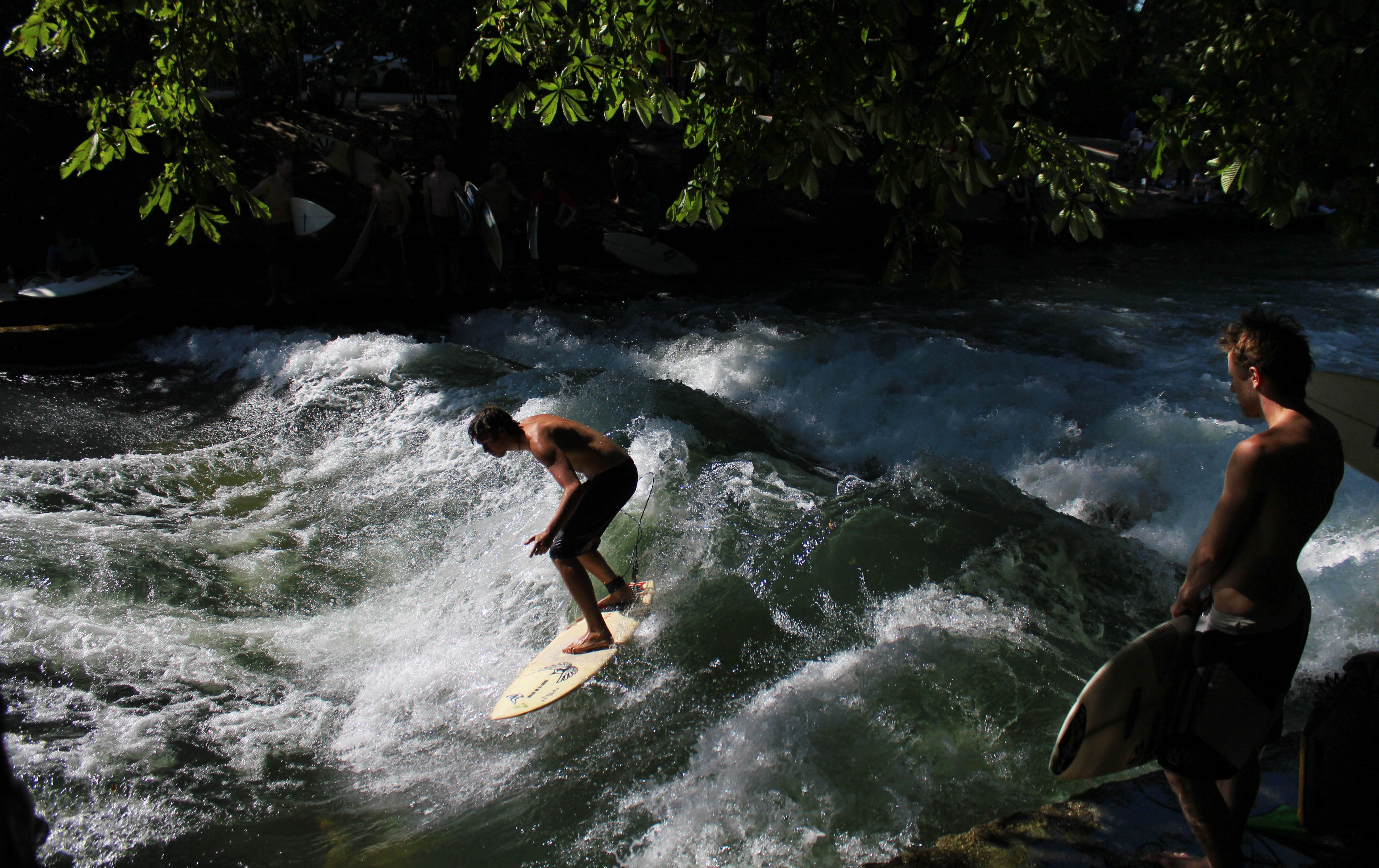 The Eisbach ("Ice Stream") is a river that flows through Munich. At the entry to the Englischer Garten it forms a huge wave that is ideal for surfers. Several surfers wait to get their try. Even Jack Johnson surfed here.